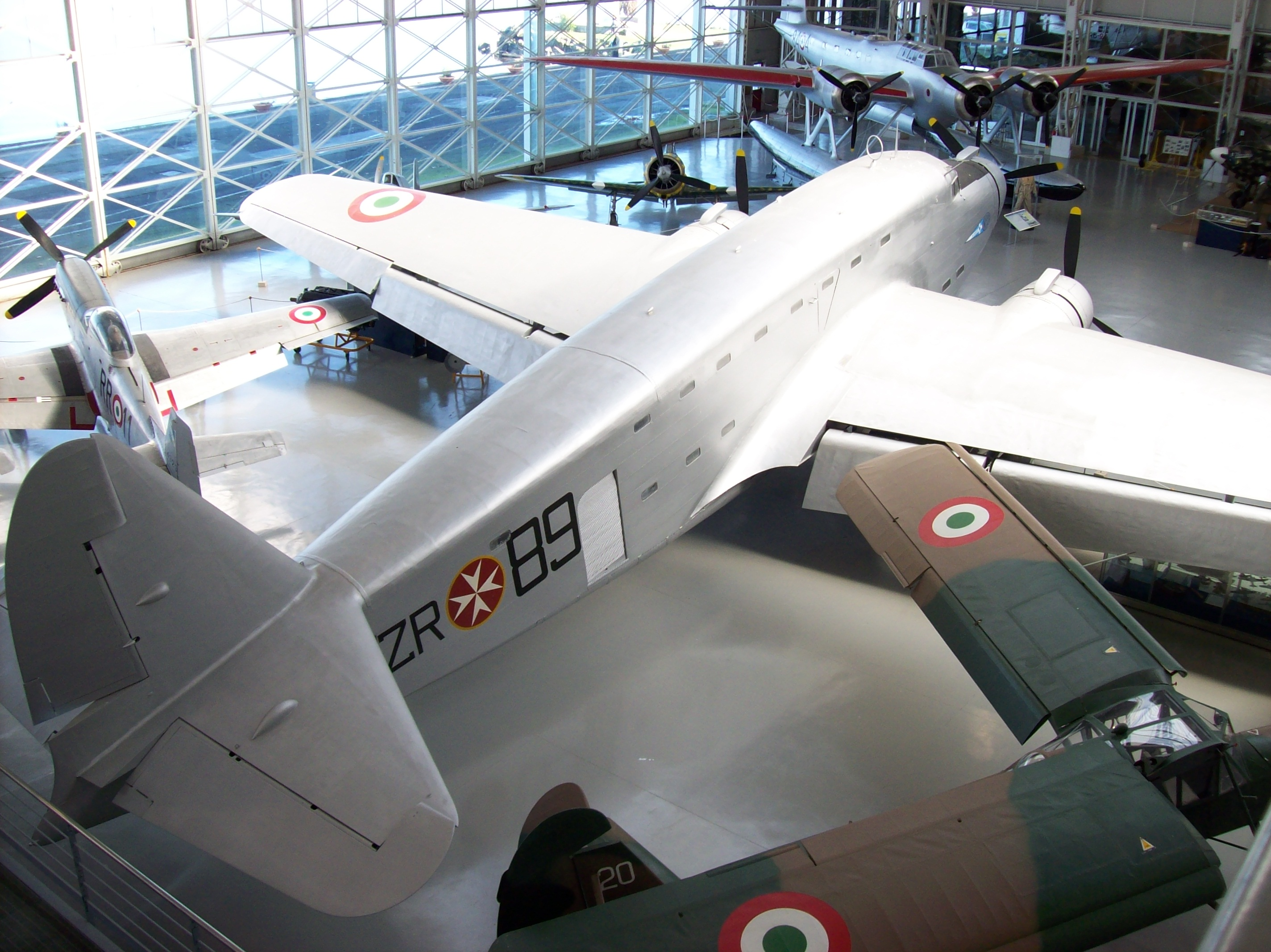 Savoia-Marchetti SM 82 bomber of the Italian Air Force, on display at the Air Force museum of Vigna di Valle near Rome